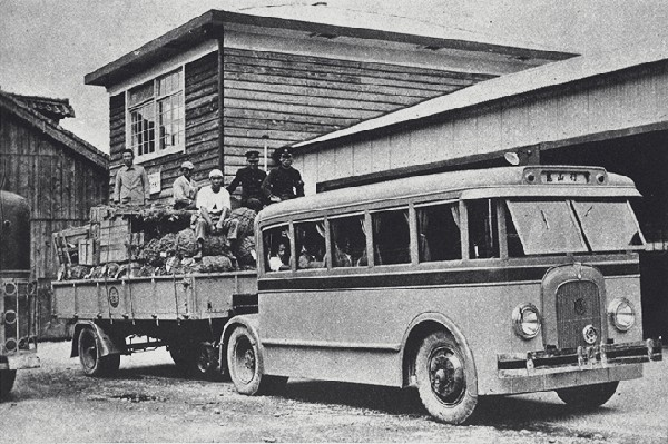 National Railways Bus between Kusatsu and Kameyama